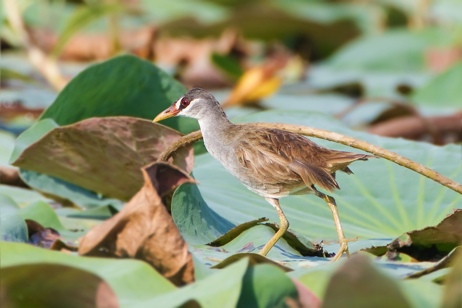 White-browed Crake (Porzana cinerea), Bueng Boraphet, Phra Non, Nakhon Sawan, Thailand